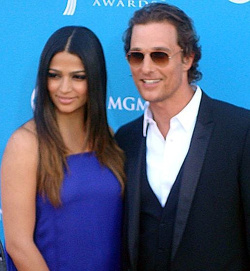 Camila Alves & Matthew McConaughey